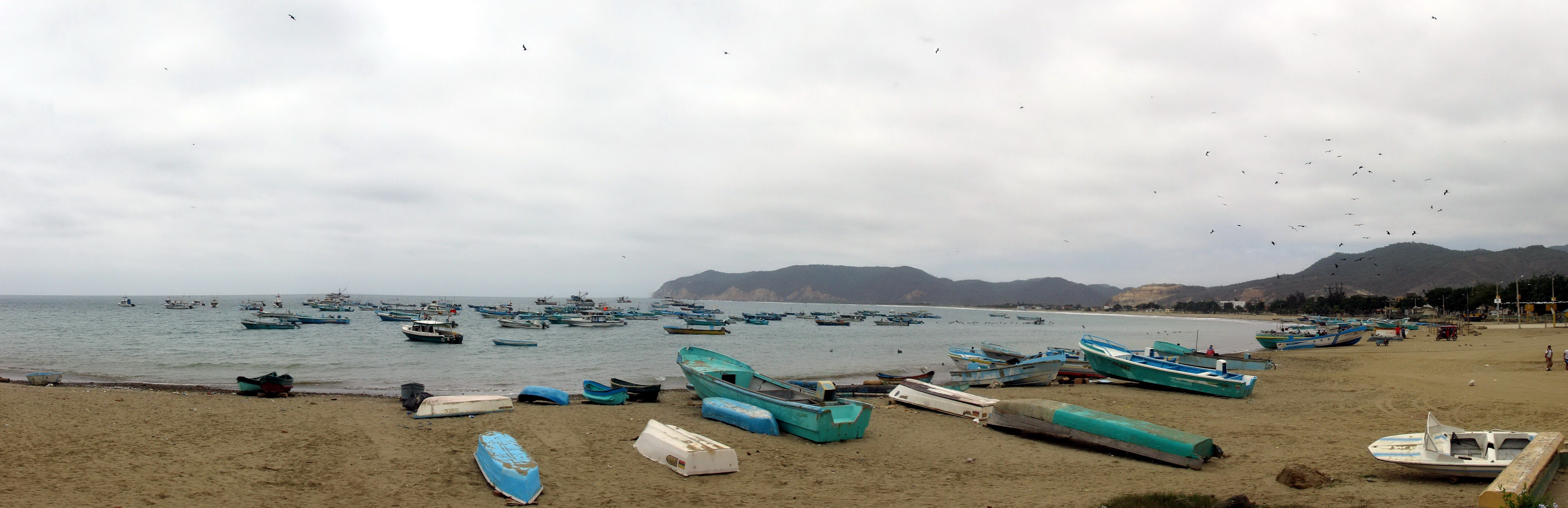 Beach of Puerto Lopez, a small fishing town in Ecuador